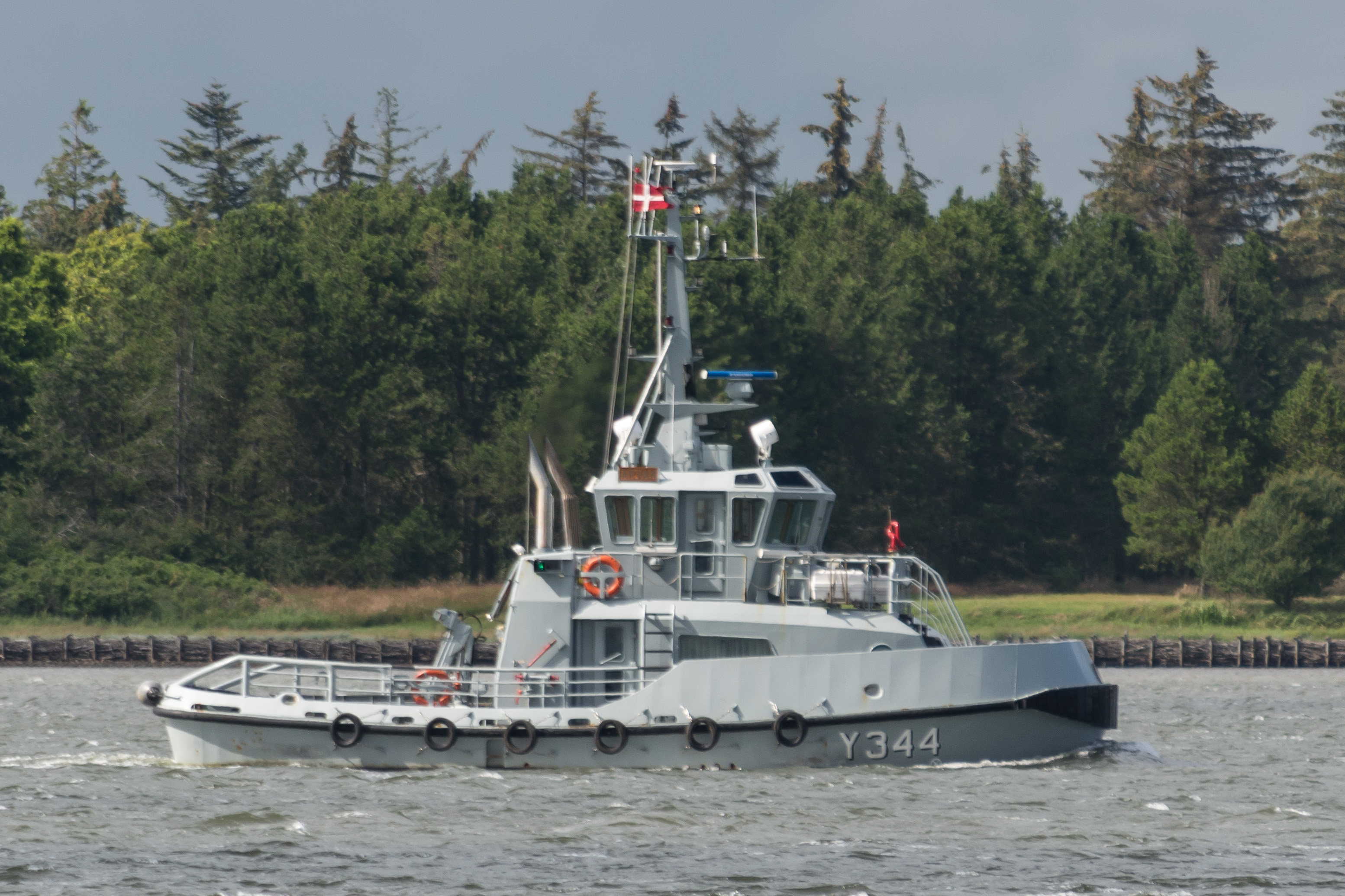 Danish tugboat Y344 Arvak during Tall Ships’ Race 2019 at Langerak, the eastern part of Limfjord, near Hals.